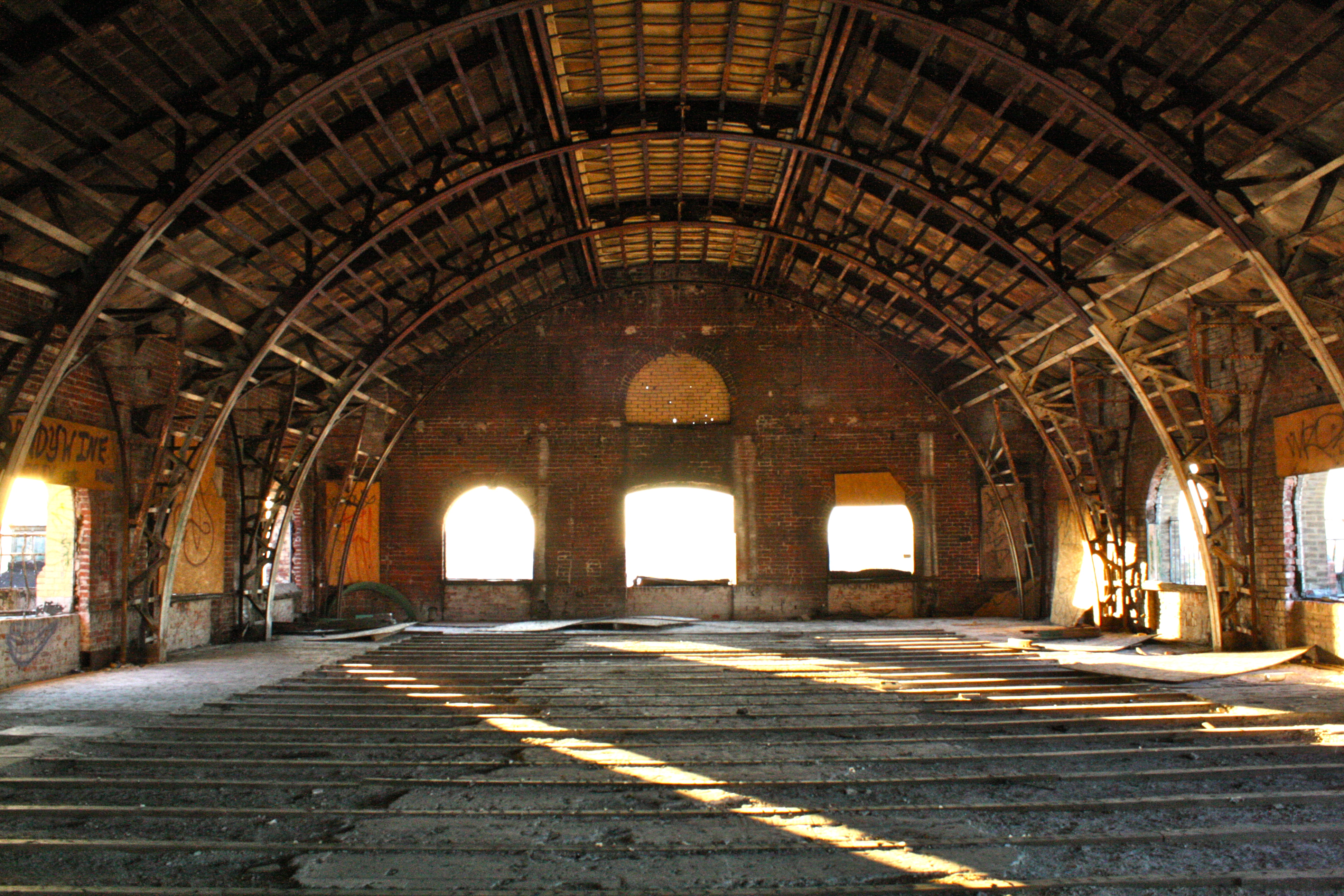 Empty, dilapidated top floor of the Divine Lorraine building in Philadelphia.